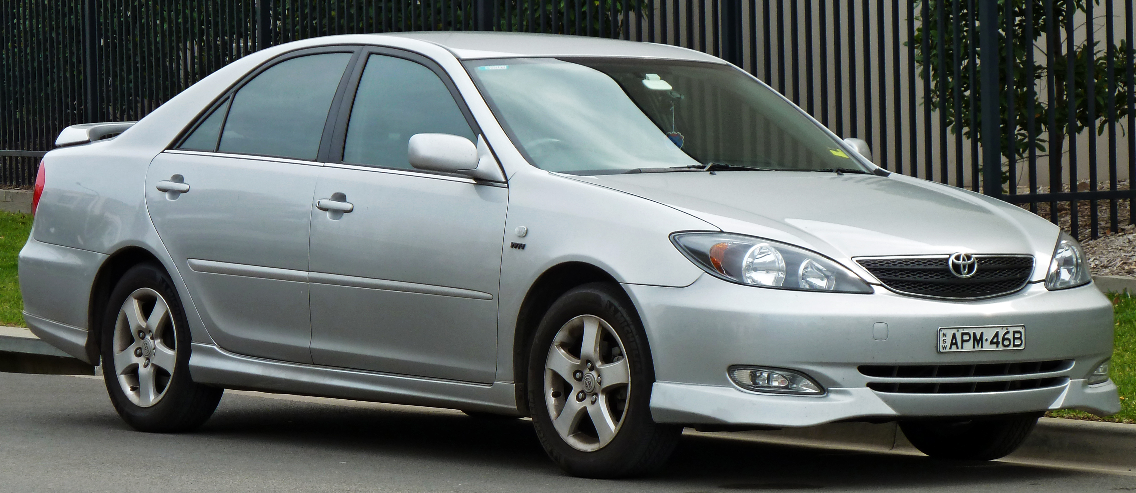 2002–2004 Toyota Camry (ACV36R) Sportivo sedan. Photographed in Taren Point, New South Wales, Australia.